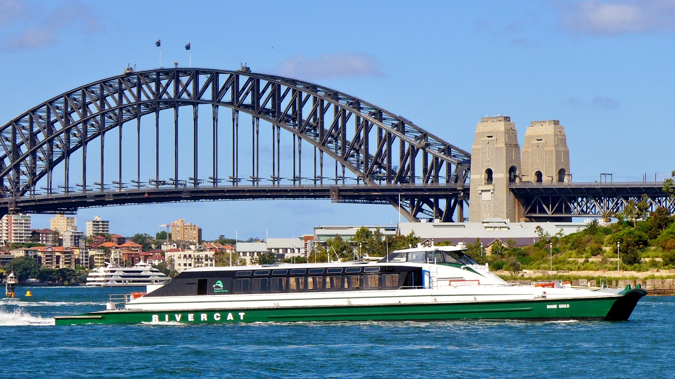 Sydney Ferries' Sydney RiverCat Shane Gould operating an F3 service to Parramatta near Millers Point, Sydney Harbour